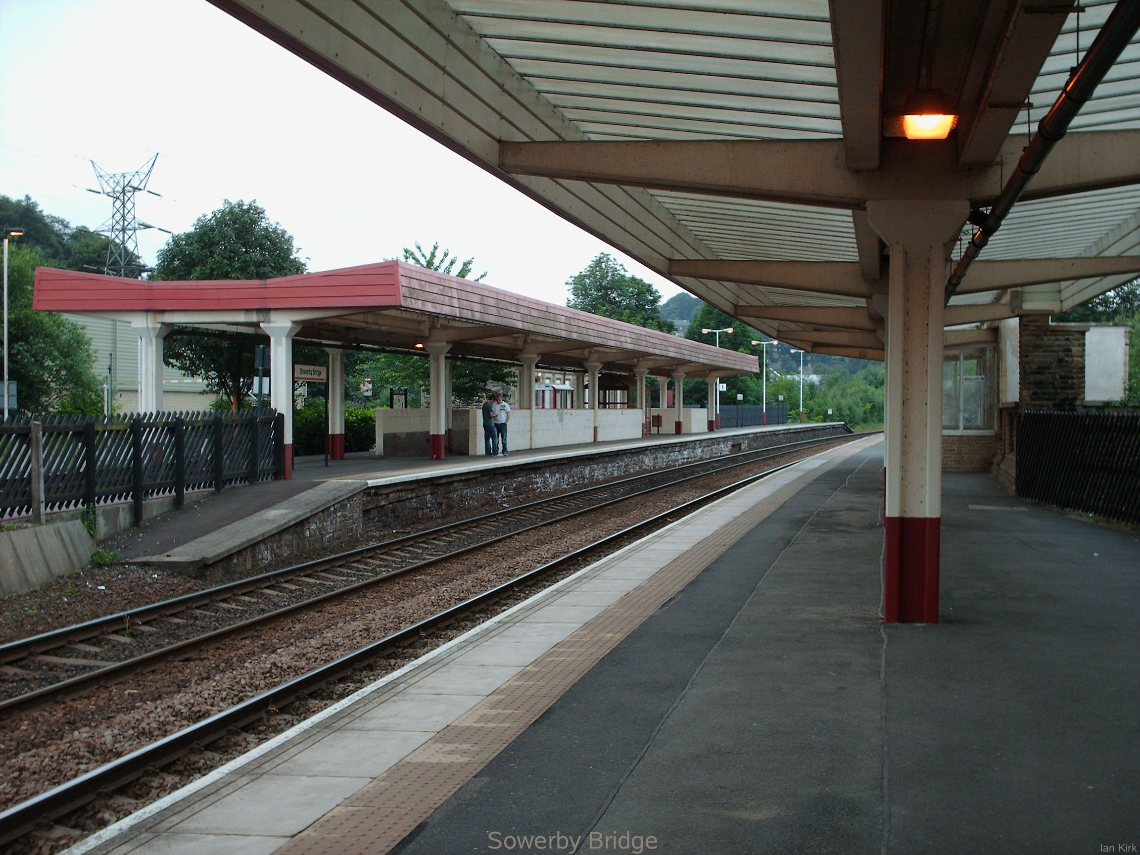 The view from platform 2, Sowerby Bridge railway station, West Yorkshire, England.